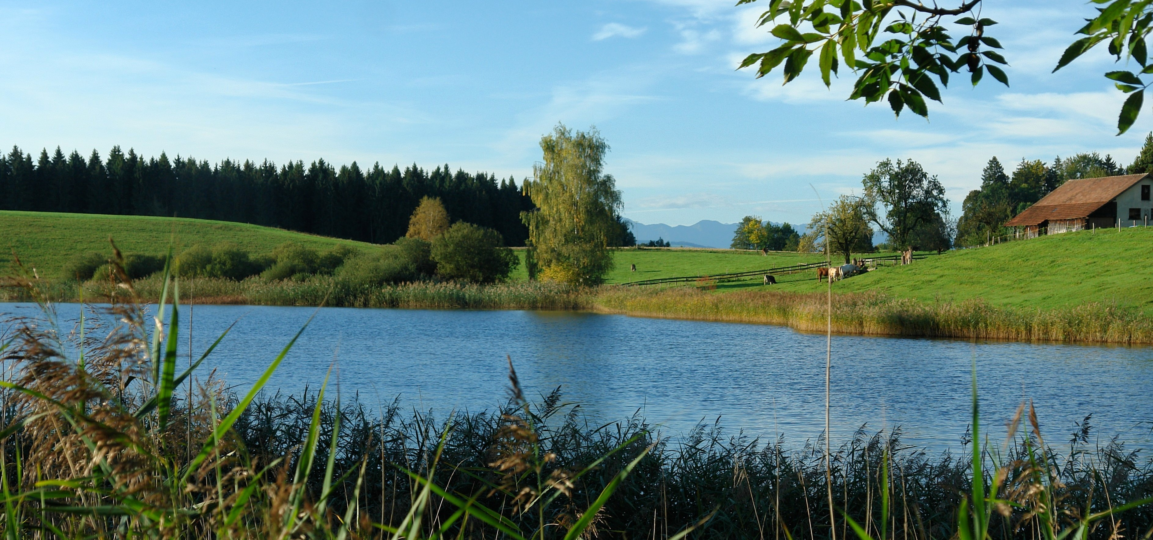 Kleiner Staudacher Weiher- A Pool within the area of Staudacher Weiher - Nature Reserve